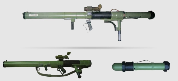 RBR 90mm M79 "Osa"